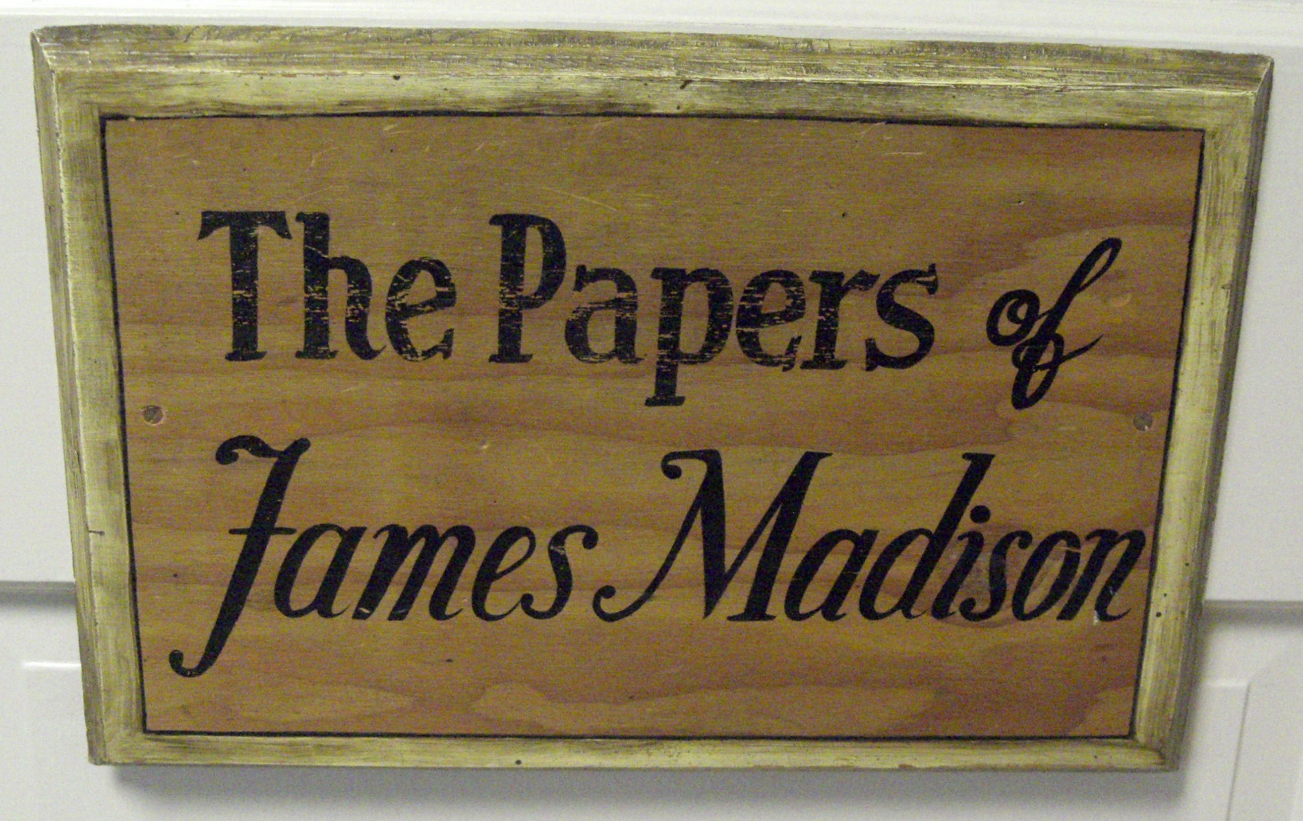 picture of the office door sign